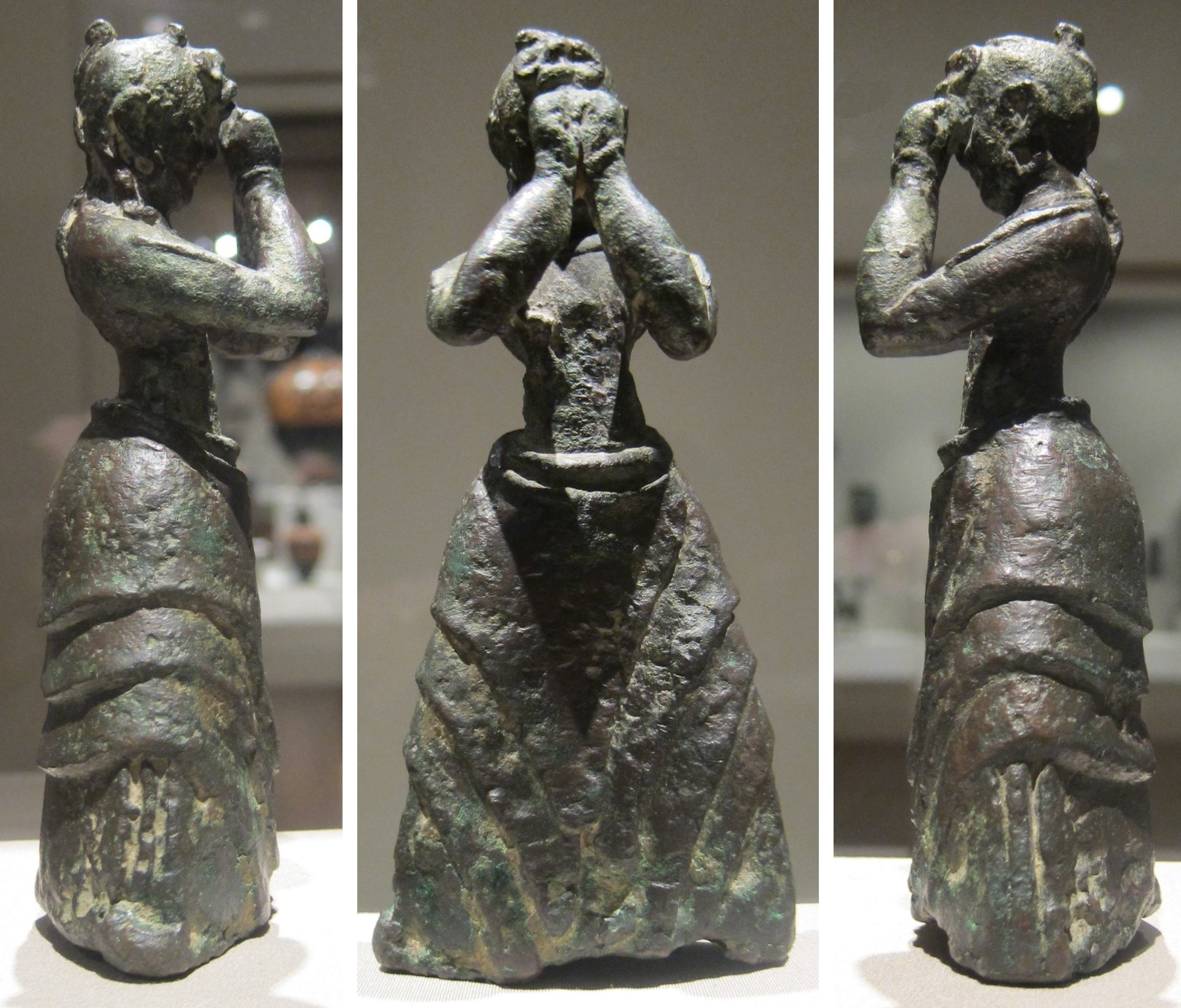 Minoan girl, c. 1600-1500 BCE, bronze, Minoan, Crete, Cleveland Museum of Art